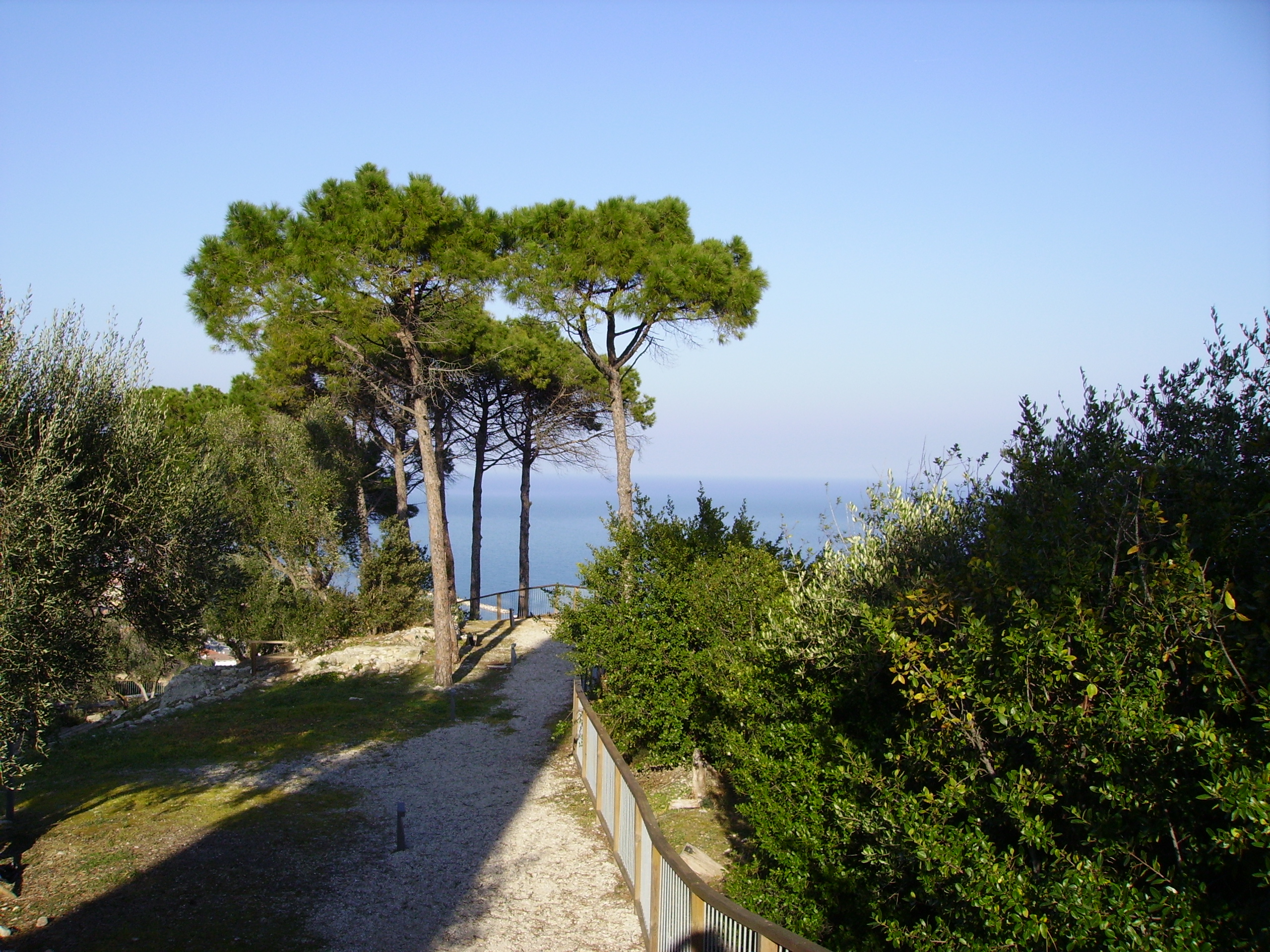 Sant'Andrea Hill, Cupra Marittima, Italy